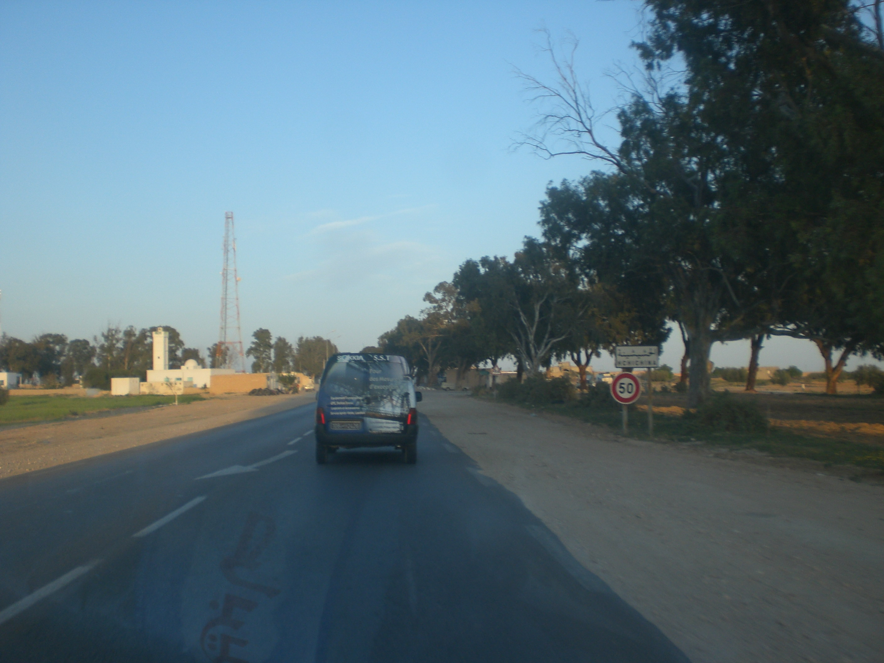 Hachichina is a Tunisian village